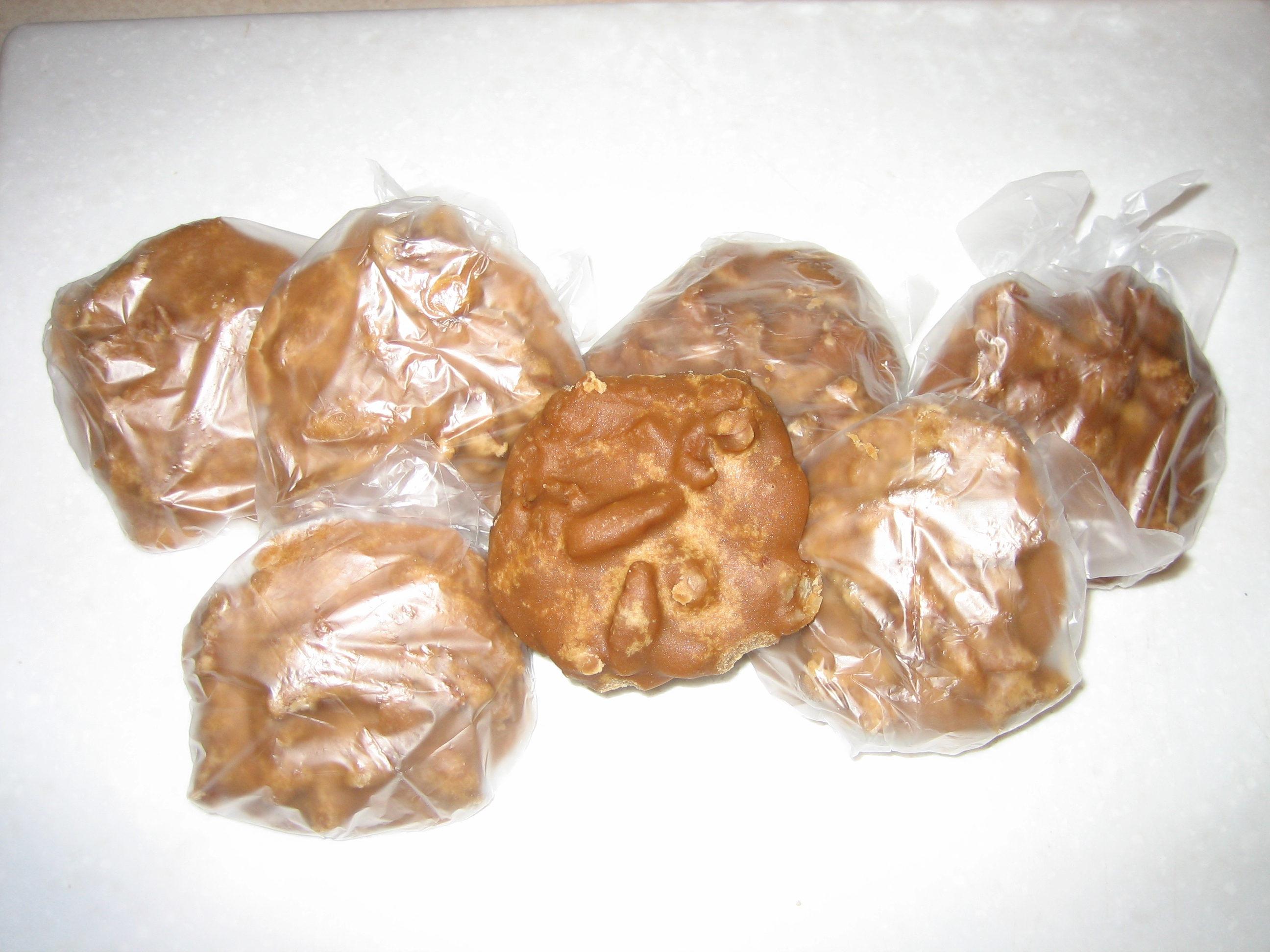 Pralines from Sweet Julep's